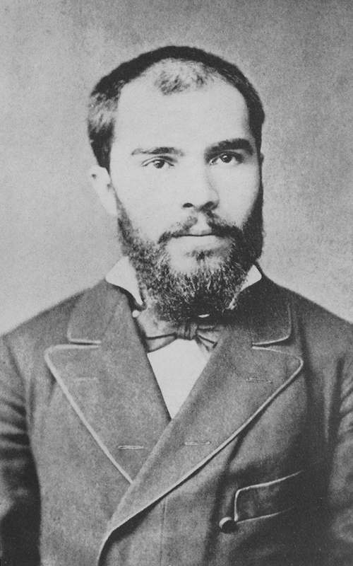 Bulgarian revolutionary and politician Stefan Stambolov.